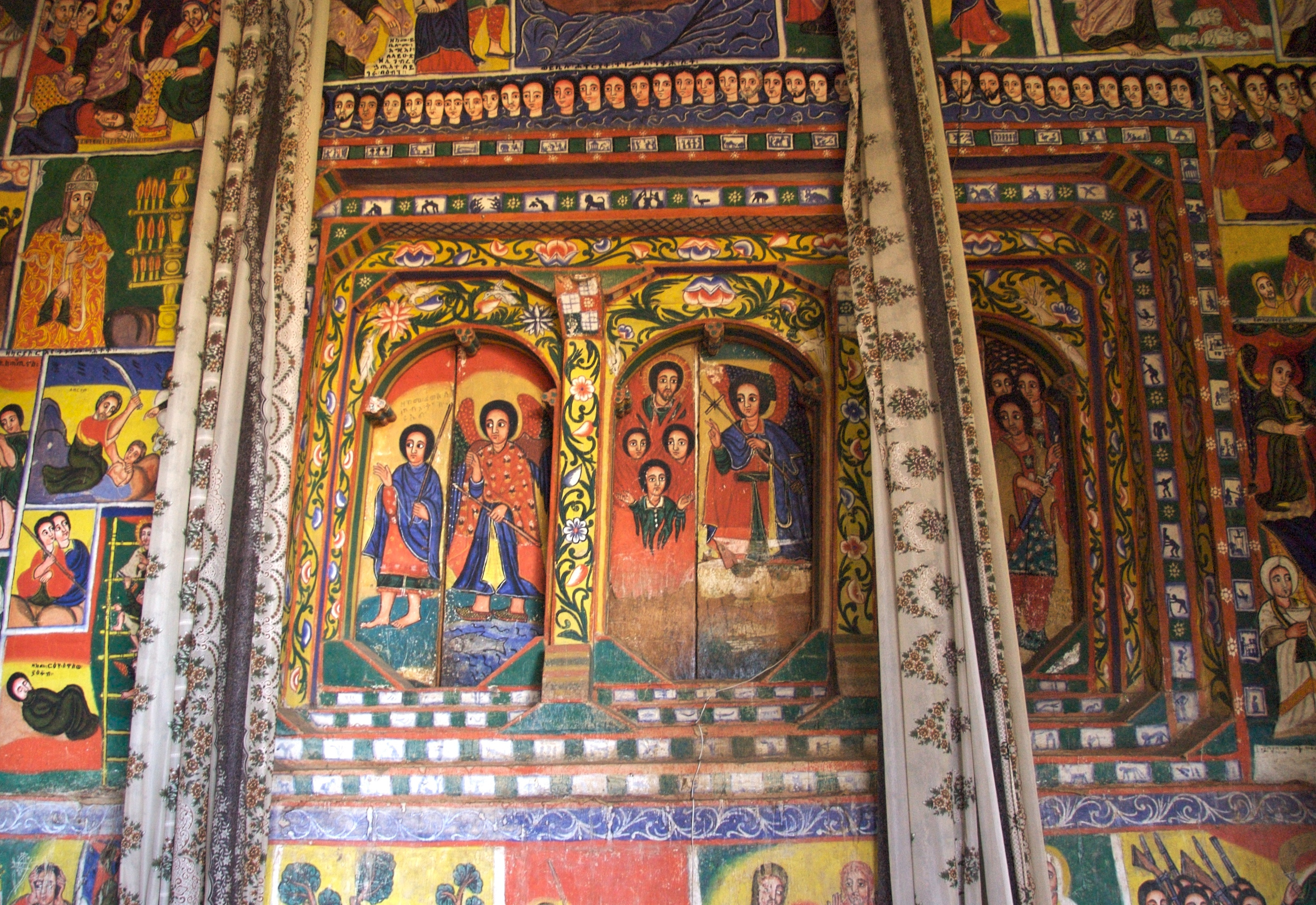 Church of Ura Kidane Mihret, Zeghie Peninsula, Lake Tana, Ethiopia.